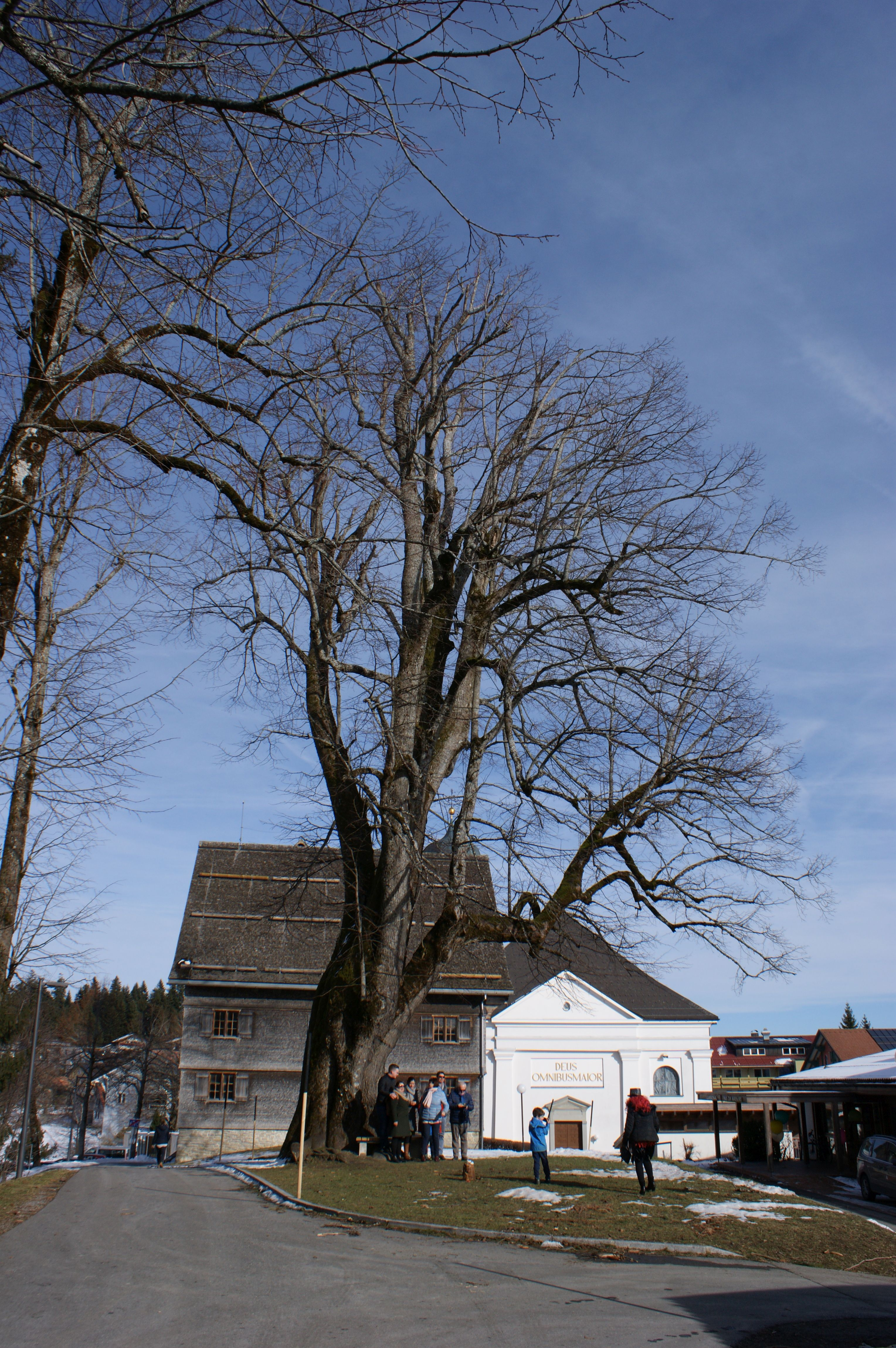 The Holy Mary-Tilia (German: Marien-Linde) in Sulzberg (Vorarlberg, Austria) in February 2020.